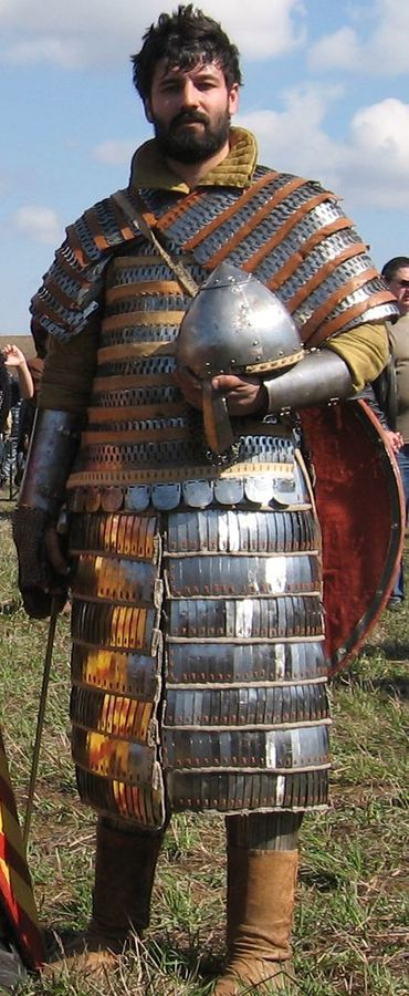 Gomel weapon workshop lamellar armour